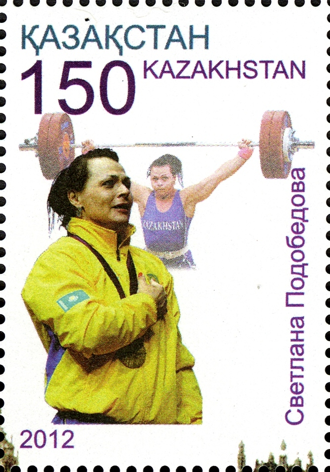 Stamps of Kazakhstan, 2013